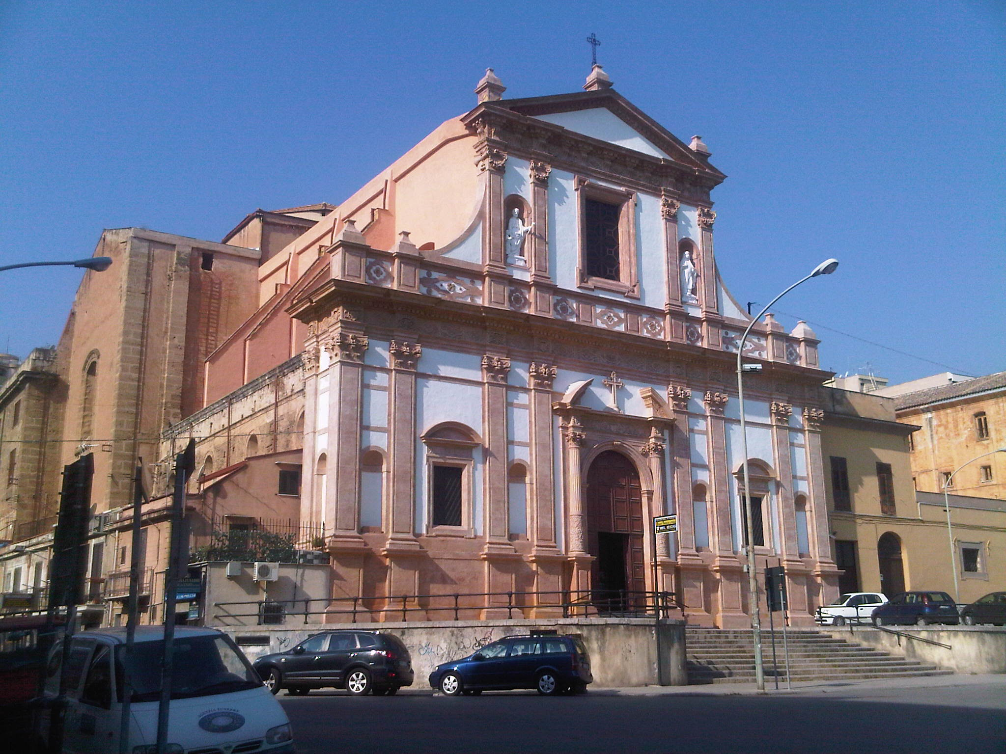 Church Our Lady of remedies and Carmelite convent, Palermo, Indipendence place